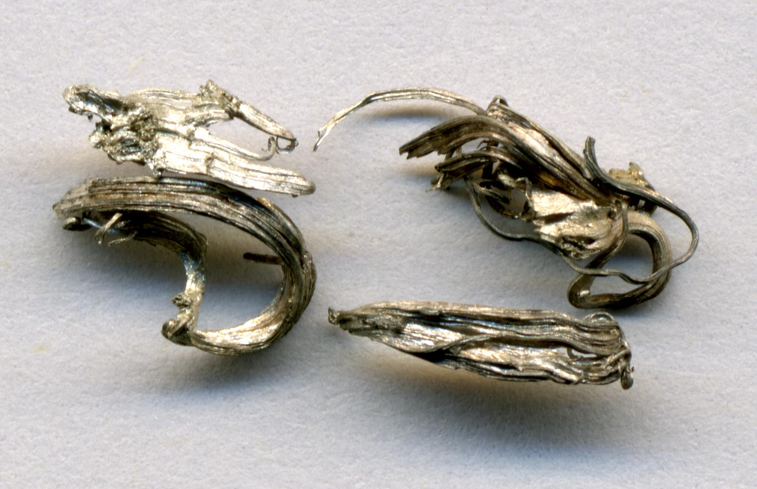 Silver usually occurs as a silver sulfide mineral, but it also occurs in nature in its native state, often in the form of twisted wires.